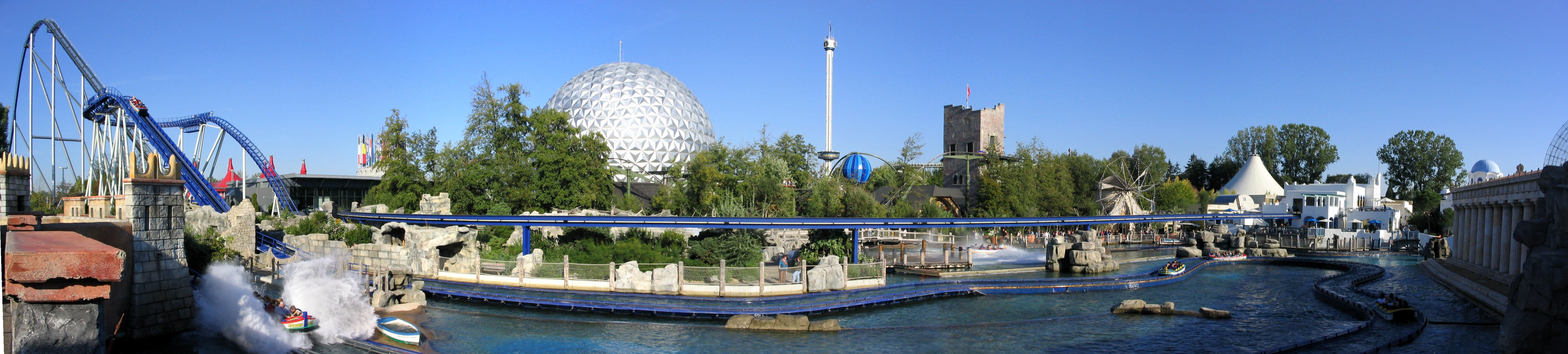 Poseidon, Europa-Park, Rust, Baden-Württemberg, Germany.